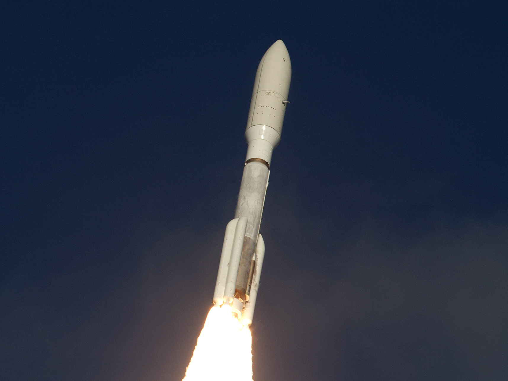 A United Launch Alliance Atlas V rocket lifts off from Space Launch Complex 41 at Cape Canaveral Air Force Station carrying the NOAA Geostationary Operational Environmental Satellite, or GOES-S. Liftoff was at 5:02 p.m. EST, March 1, 2018. GOES-S is the second satellite in a series of next-generation weather satellites. It will launch to a geostationary position over the U.S. to provide images of storms and help predict weather forecasts, severe weather outlooks, watches, warnings, lightning conditions and longer-term forecasting.